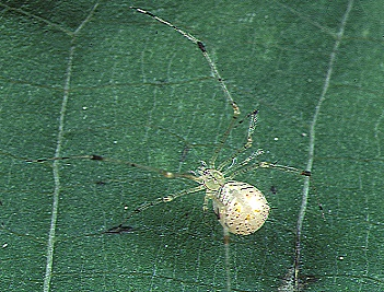 female Chrysso spiniventris from Okinawa.